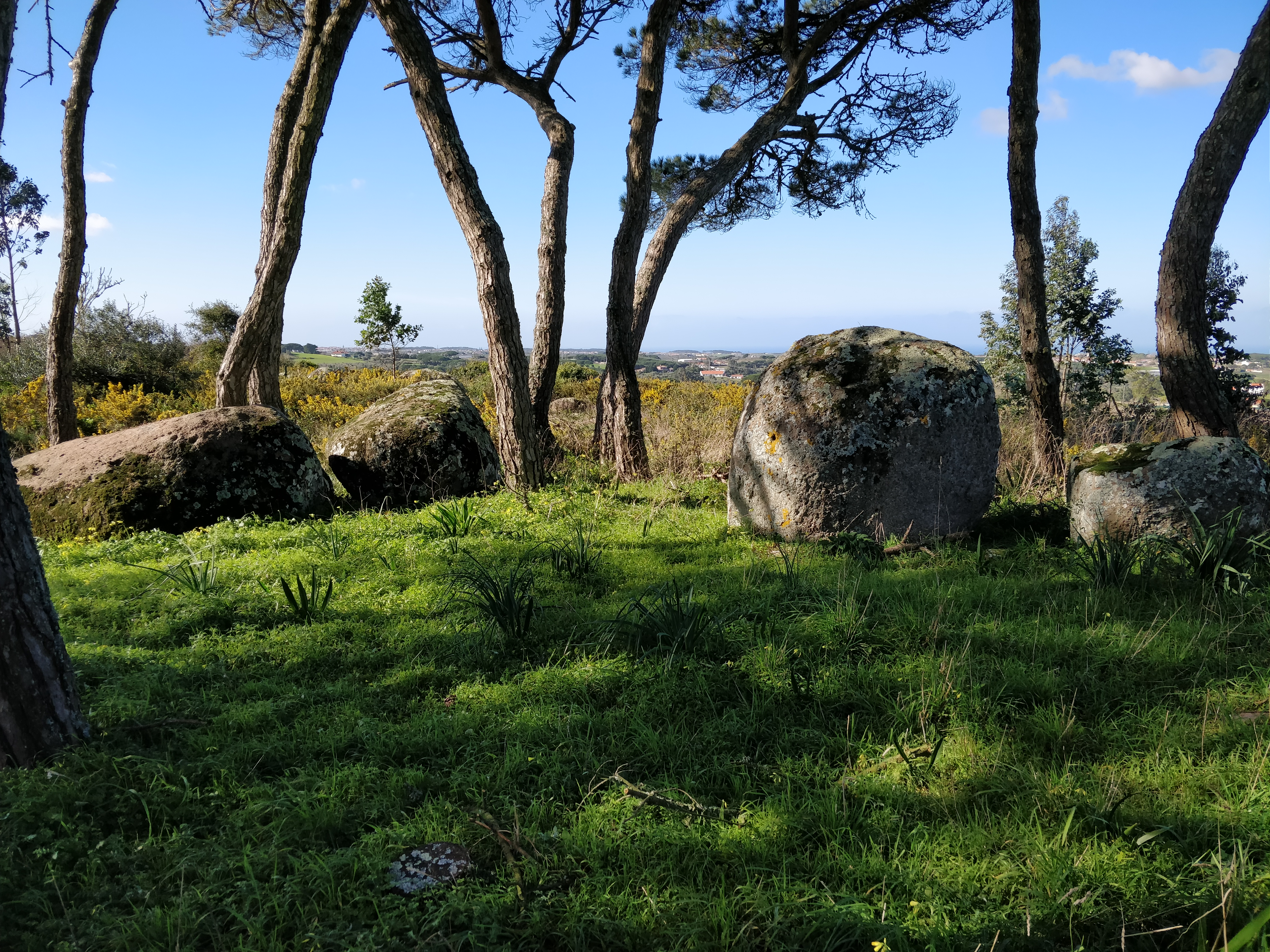 View of Conjunto Megalítico da Barreira near Sintra, Portugal